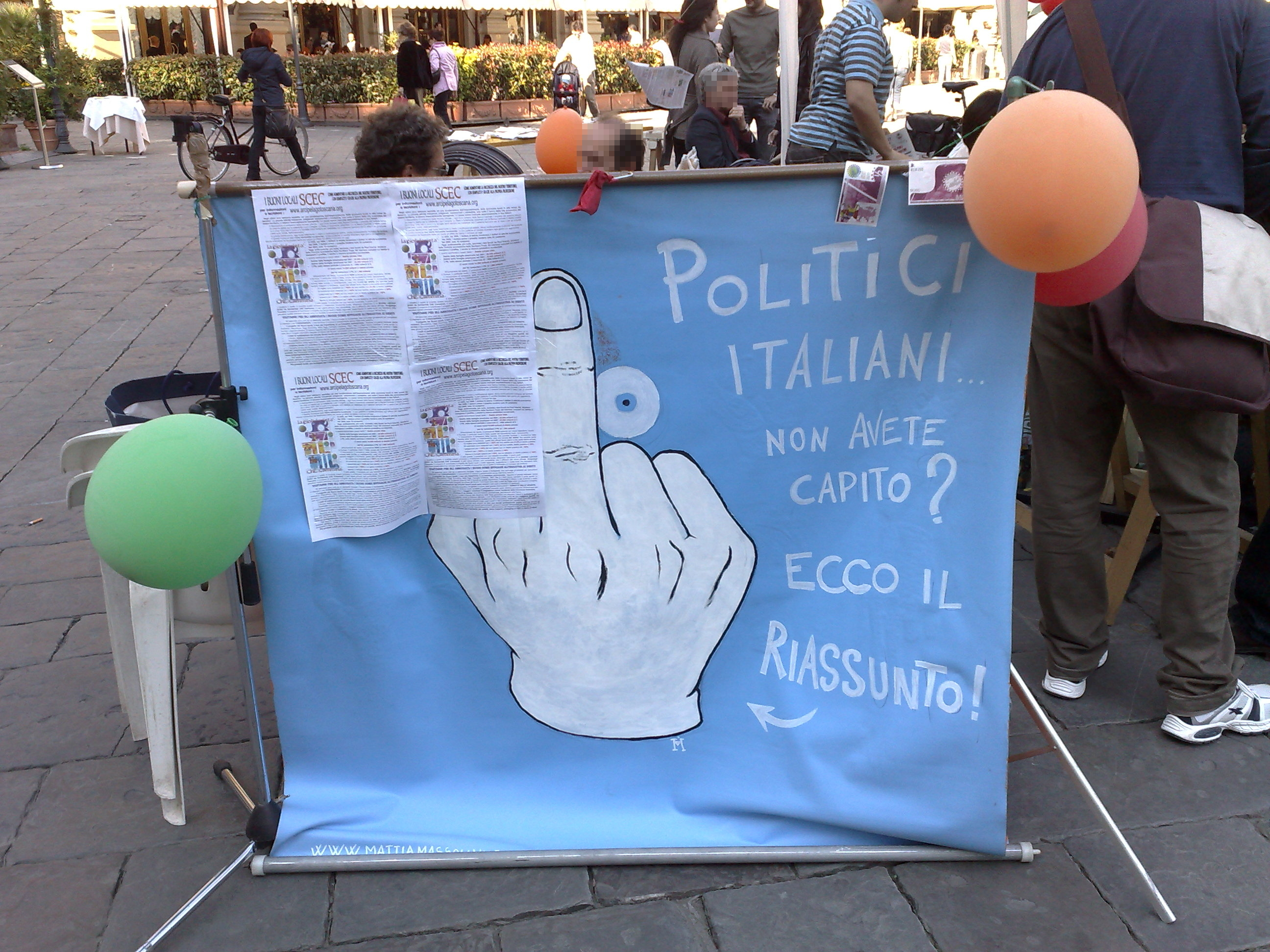 Poster of V2-Day in Piazza della Repubblica, Florence